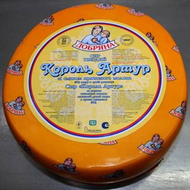 picture of King Athure cheese